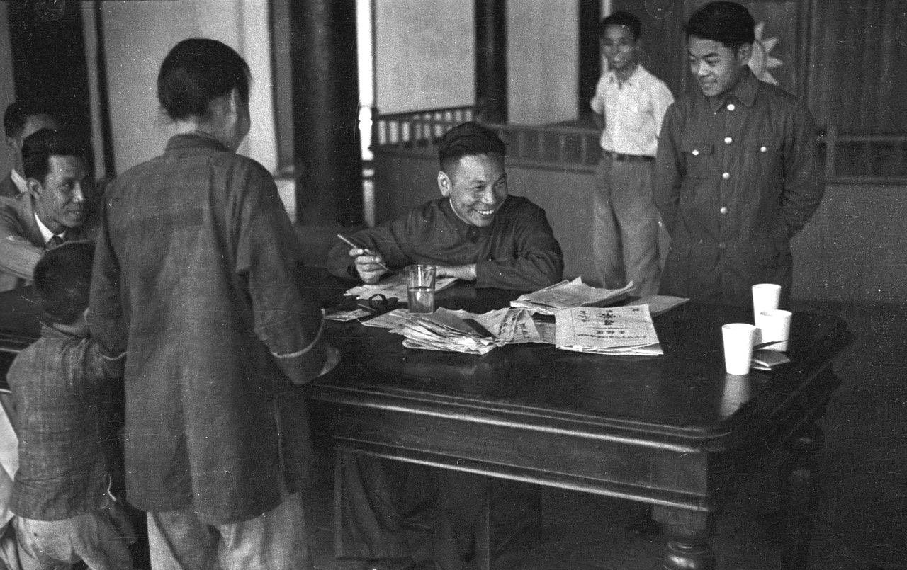 Chiang Ching-kuo in Gannan during the early 1940s. Chiang Ching-kuo was appointed as commissioner of Gannan Prefecture (贛南) between 1939 and 1945.